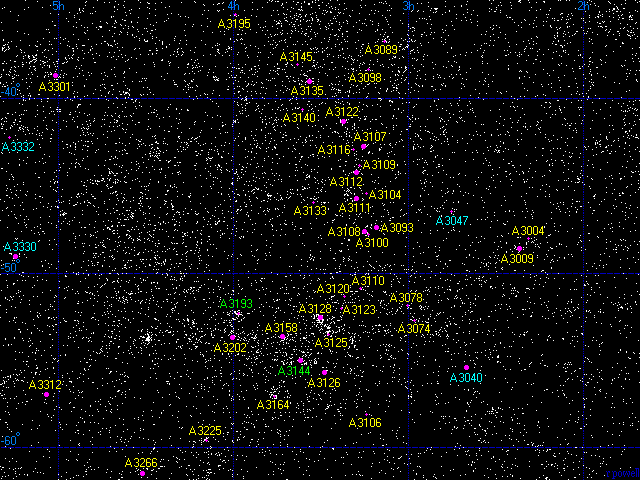 Map of the Horologium Supercluster. Credits: Powell, Richard. Atlas of the Universe Copyrights information